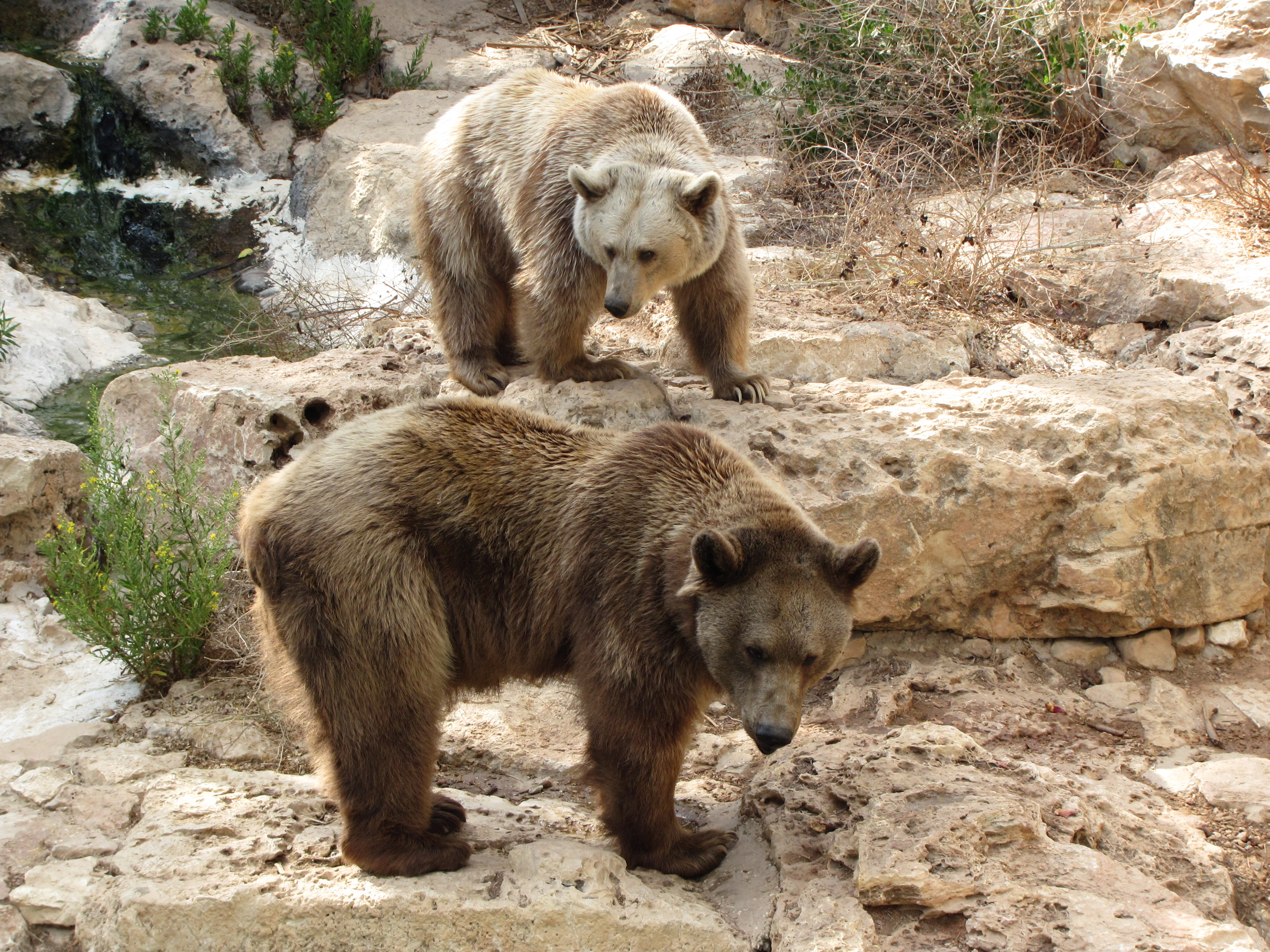 Syrian brown bears at the Jerusalem Biblical Zoo.